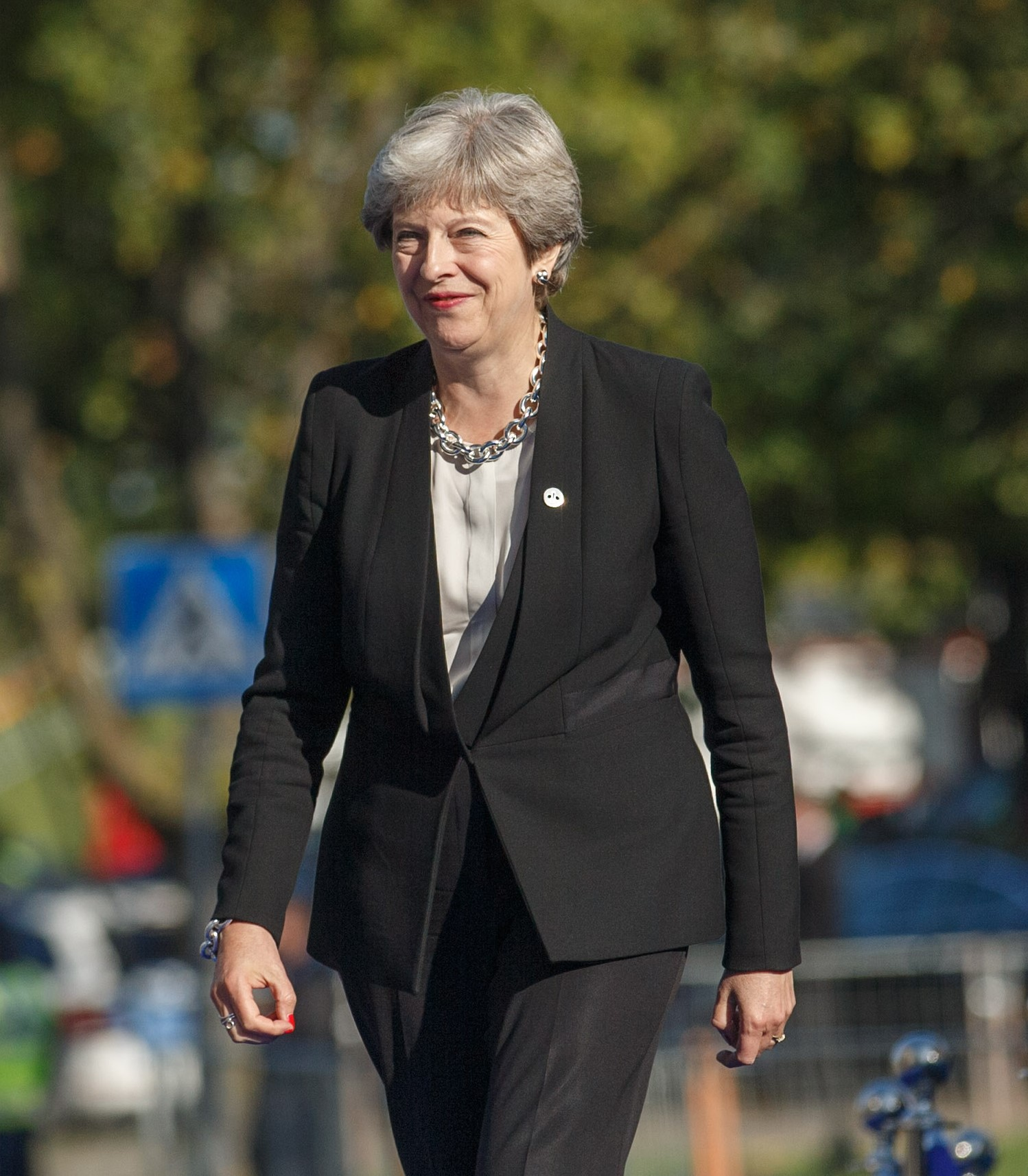 Rt Hon Theresa May MP, Prime Minister of the United Kingdom